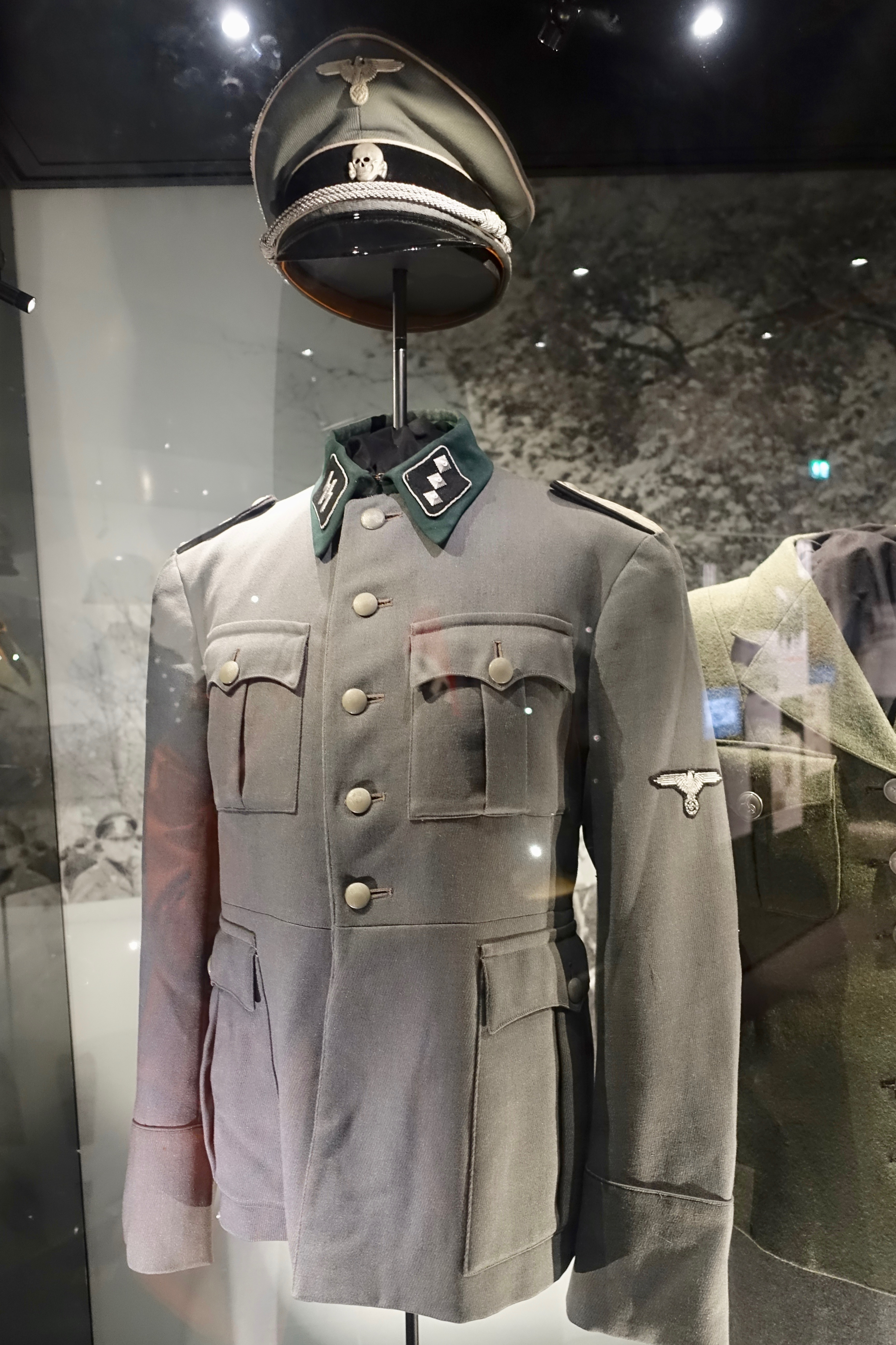 Tunic and visor cap (peaked cap) belonged to a Norwegian volunteer with the rank of SS-Untersturmführer in the Waffen-SS: High-fronted peaked visor cap (Schirmmütze) with SS Nazi style silver Hoheitszeichen/Hoheitsadler, Germany imperial eagle, and skull and crossbones/death's head (Totenkopf) cap insignia. Tunic (Waffenrock), single-breasted, with two side pockets and two box-pleated patch breast pockets, rank insignia and SS Siegrunen on collar patches/tabs (Kragenspiegeln), shoulder straps, and SS-eagle on sleeve (SS Hoheitszeichen, Ärmelvogel). Photo taken on March 31st, 2019 at the World War II exhibition in the Armed Forces Museum of Norway (Forsvarsmuseet) at Akershus Fortress, Oslo, Norway. Legal disclaimer This image shows (or resembles) a symbol that was used by the National Socialist (NSDAP/Nazi) government of Germany or an organization closely associated to it, or another party which has been banned by the Federal Constitutional Court of Germany. The use of insignia of organizations that have been banned in Germany (like the Nazi swastika or the arrow cross) are also illegal in Austria, Hungary, Poland, Czech Republic, France, Brazil, Israel, Ukraine, Russia and other countries, depending on context. In Germany, the applicable law is paragraph 86a of the criminal code (StGB), in Poland – Art. 256 of the criminal code (Dz.U. 1997 nr 88 poz. 553).